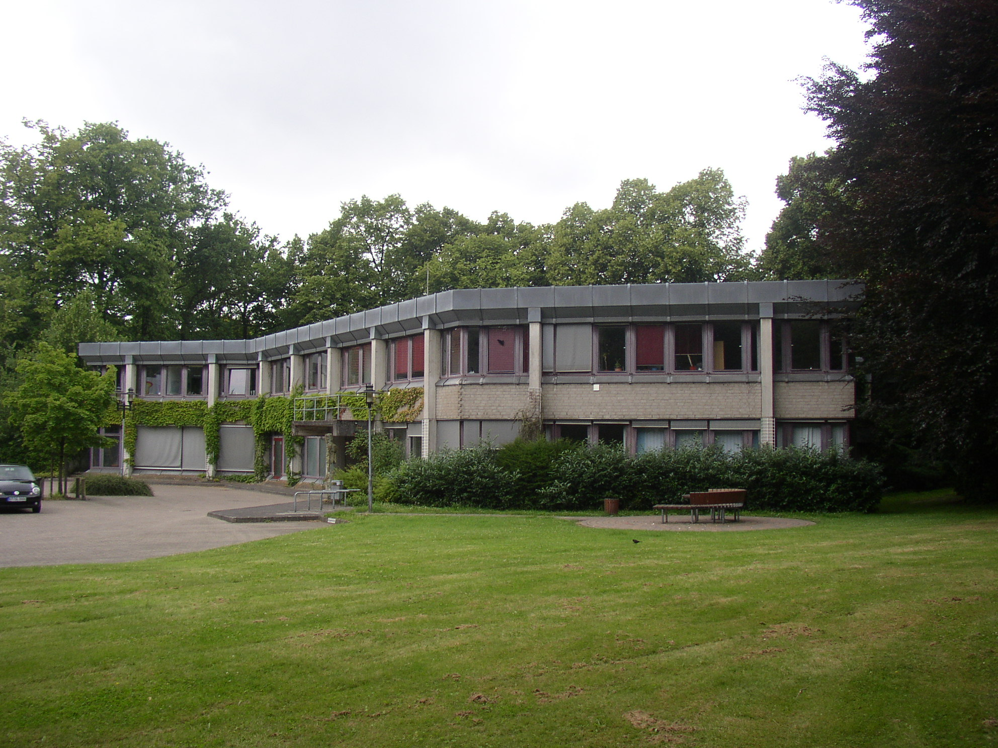 town hall in Borgholzhausen, County of Gütersloh, Germany